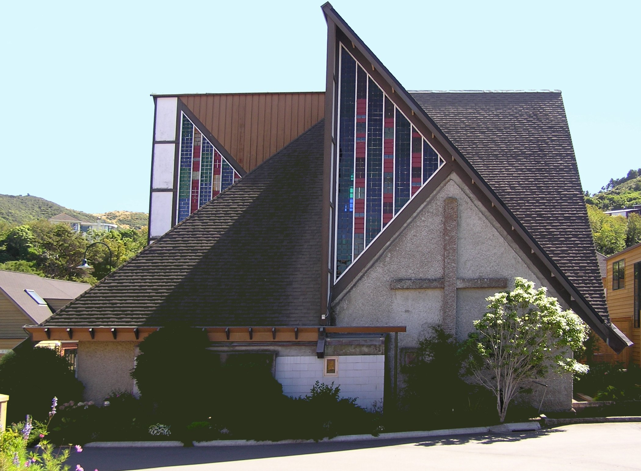 View from the SE of the Futuna Chapel, Karori, Wellington, New Zealand